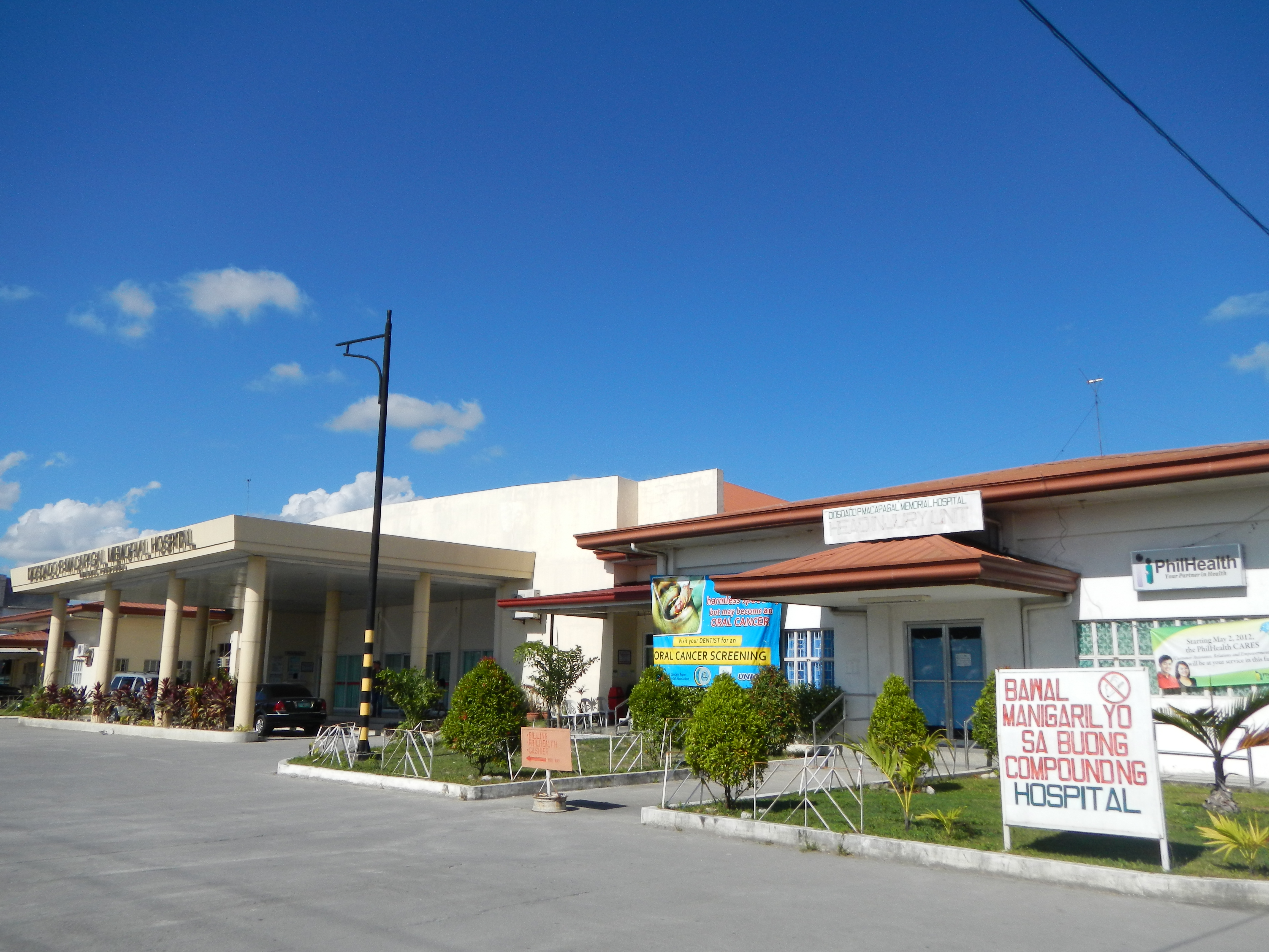 Diosdado Macapagal Hospital Guagua, Pampanga[1]